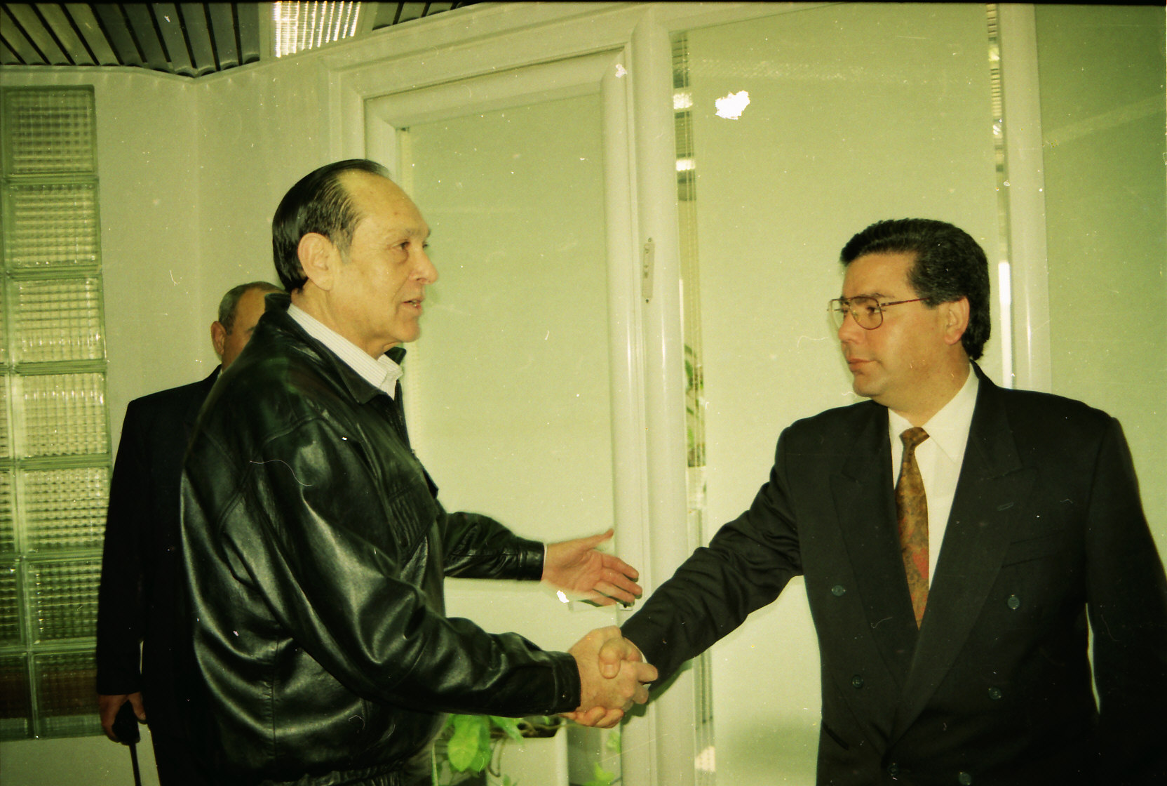 People of Israel